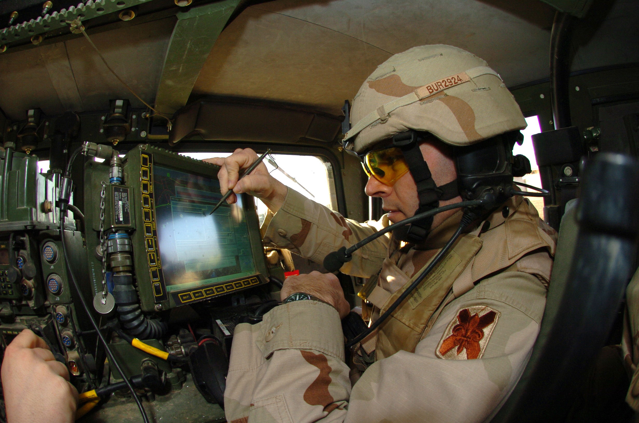 A U.S. Army soldier from the 256th Brigade Combat Team, 2nd Battalion prepares his Humvee's Blue Force Tracker before departing Camp Victory in Iraq on Feb. 5, 2005. The 256th Brigade's mission, Amber Waves, delivered more than 262,000 metric tons of fertilizer and agricultural supplies to local farmers throughout the Baghdad area.